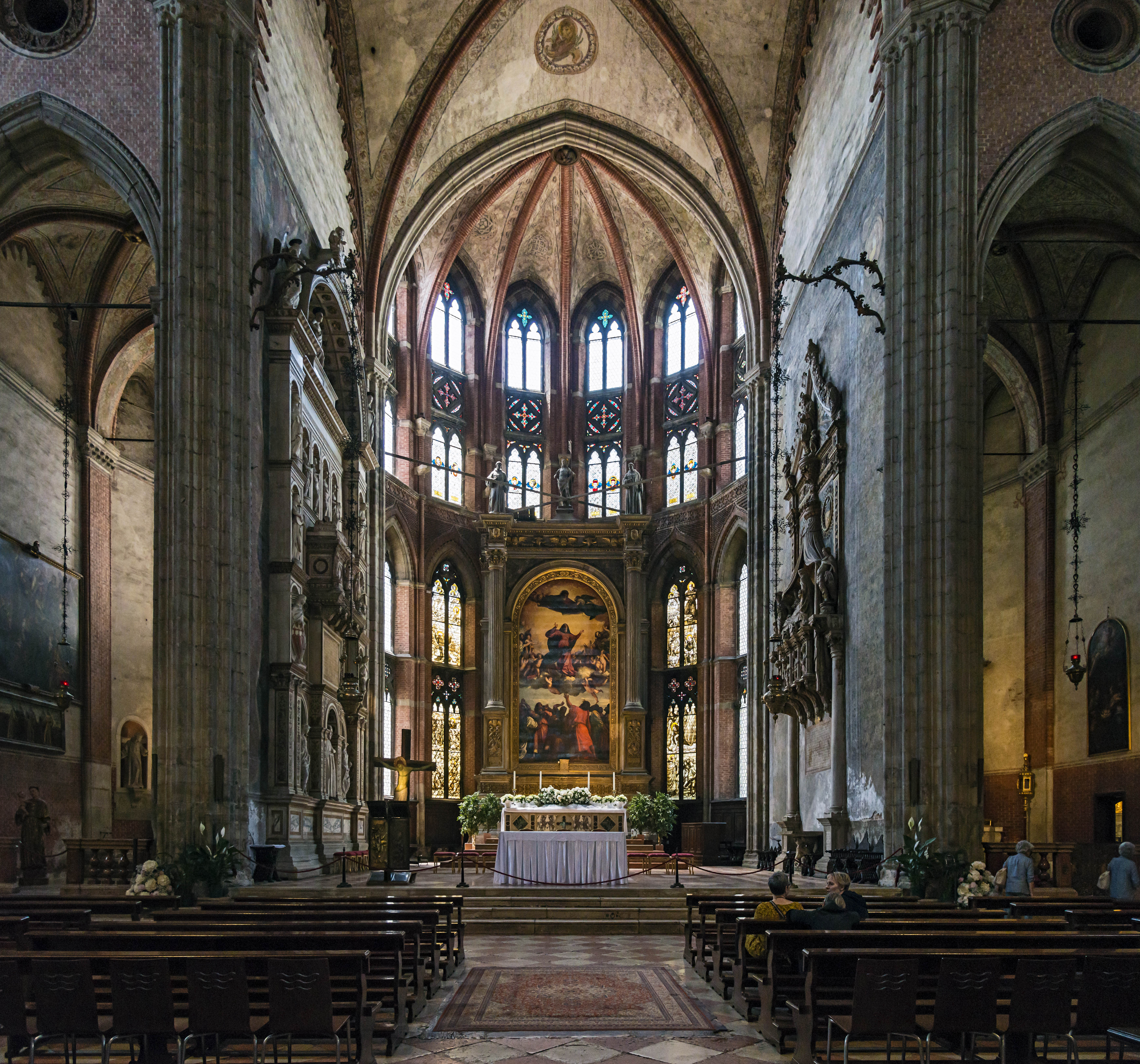 The Basilica di Santa Maria Gloriosa dei Frari. The liturgical choir.